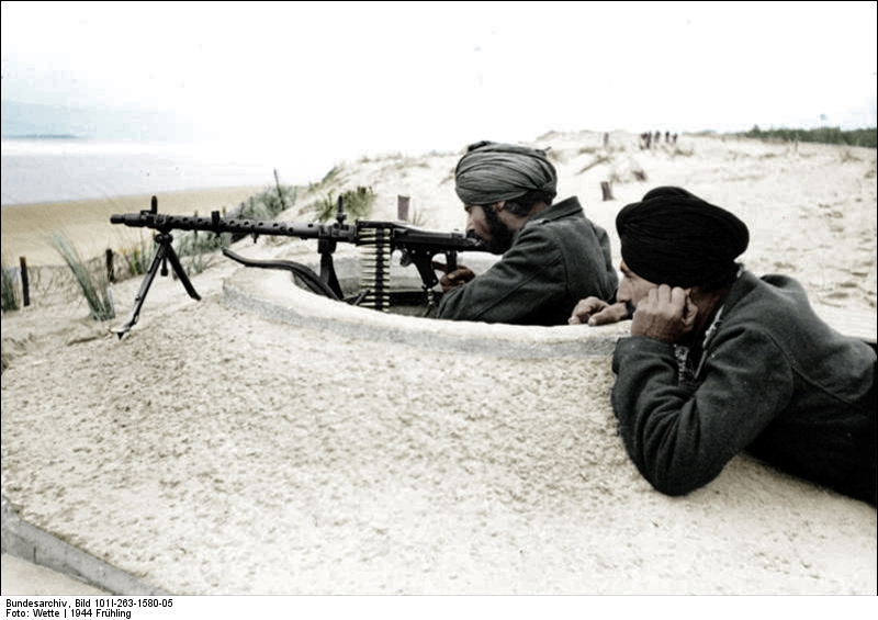 This is a retouched picture, which means that it has been digitally altered from its original version. Modifications: recolored. The original can be viewed here: Bundesarchiv Bild 101I-263-1580-05, Atlantikwall, Soldaten der Legion "Freies Indien".jpg: . Modifications made by Ruffneck88. Atlantikwall, Soldaten der Legion "Freies Indien" Photographer WetteArchive description Description provided by the archive when the original description is incomplete or wrong. You can help by reporting errors and typos at Commons:Bundesarchiv/Error reports. Frankreich (Atlantikwall), bei Bordeuax.- Soldaten der Legion "Freies Indien mit I. MG 34; PK 696Title Atlantikwall, Soldaten der Legion "Freies Indien" Depicted place AtlantikwallDate Taken on 21 March 1944Collection German Federal Archives Native nameDas BundesarchivLocationKoblenz (headquarters)Coordinates50° 20′ 32.71″ N, 7° 34′ 21.22″ E Established1946Web page control : Q685753 VIAF: 137346469 ISNI: 0000 0004 0555 2728 LCCN: n92025526 NLA: 36455393 Open Library: OL55798A WorldCat institution QS:P195,Q685753Current location Propagandakompanien der Wehrmacht - Heer und Luftwaffe (Bild 101 I)Accession number Bild 101I-263-1580-05 Source This image was provided to Wikimedia Commons by the German Federal Archive (Deutsches Bundesarchiv) as part of a cooperation project. The German Federal Archive guarantees an authentic representation only using the originals (negative and/or positive), resp. the digitalization of the originals as provided by the Digital Image Archive.